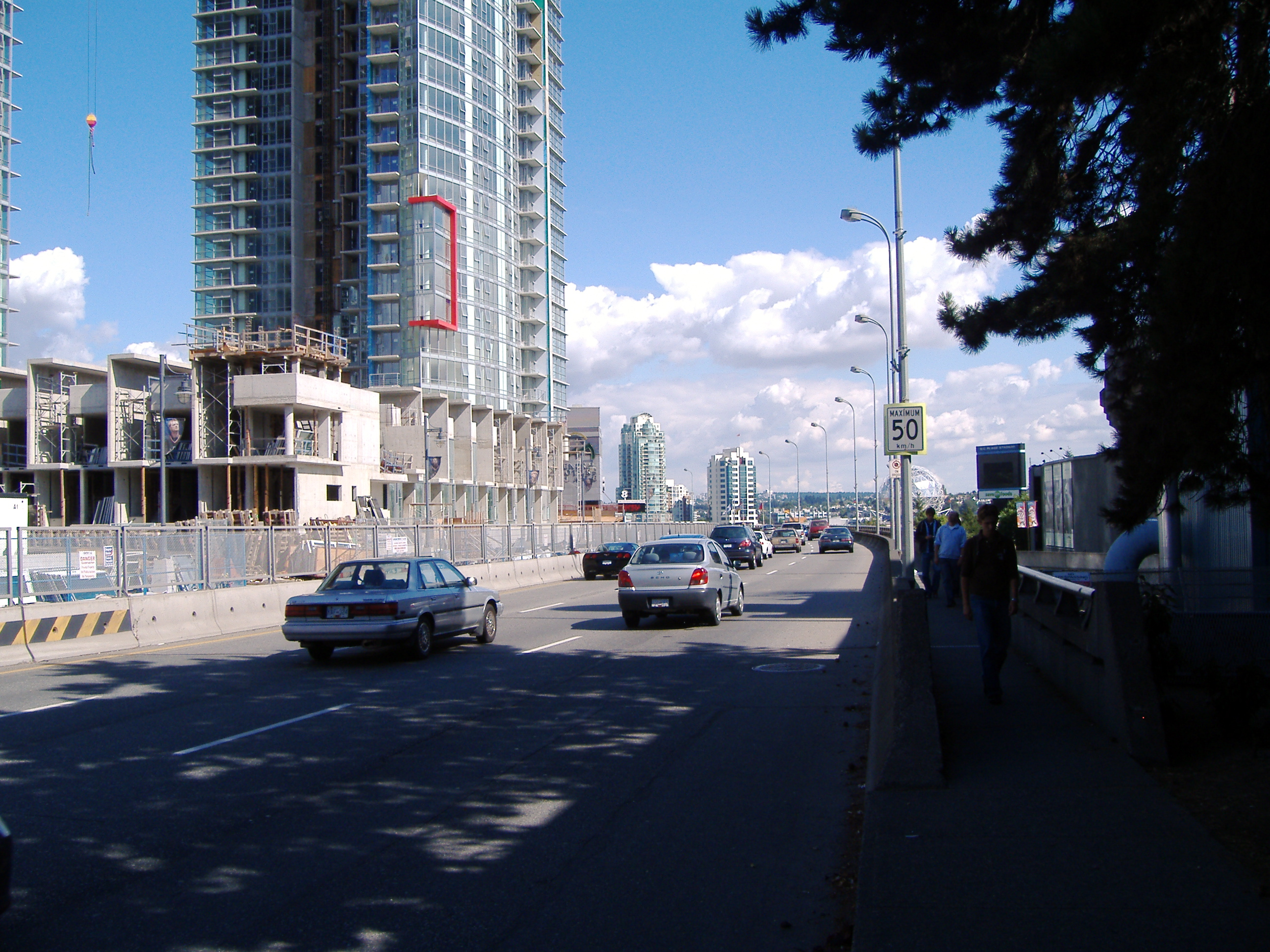 Facing eastward, the entry point of the Georgia Street Viaduct.